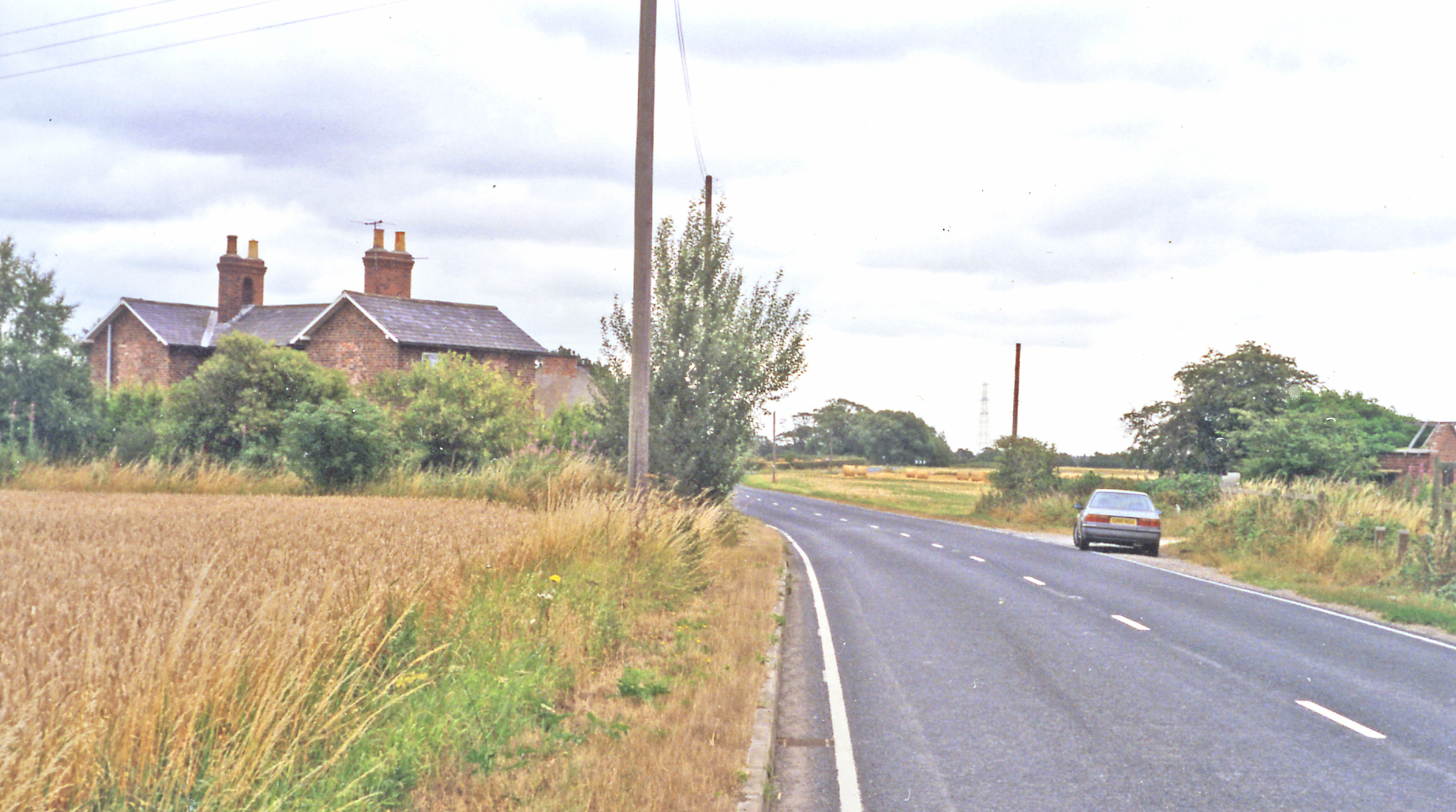 High Field station site/remains, 1995.Bubwith, East Riding of Yorkshire, England.View NW on B1228 (Howden - York) road. The ex-NER Selby - Market Weighton line used to cross here until closed from 27/1/64, the station and local passenger services having been closed since 20/9/54.